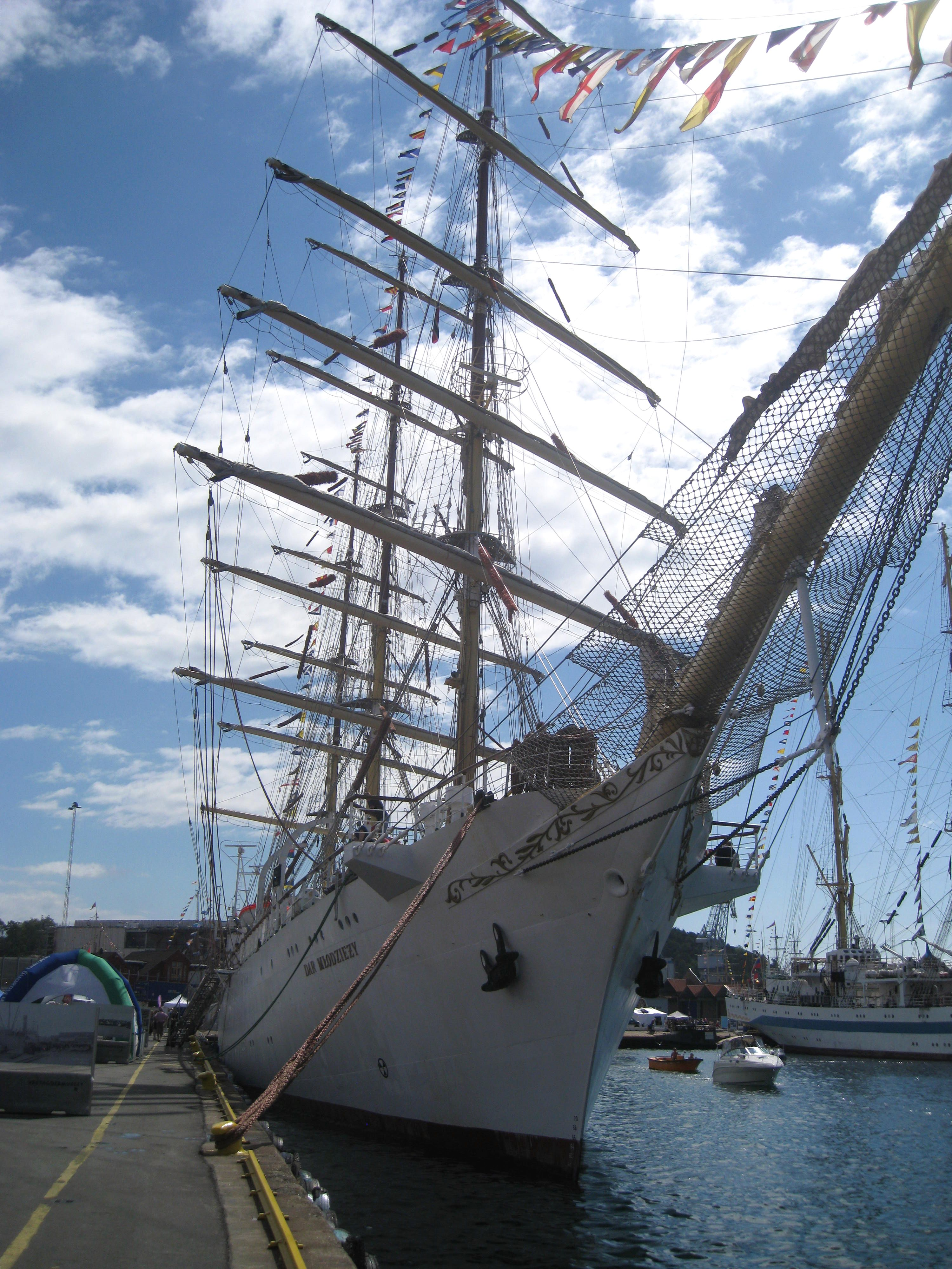 Polish Dar Młodzieży sailing ship on harbor in Kristiansand, Norway, during Tall Ships' Races 2010.